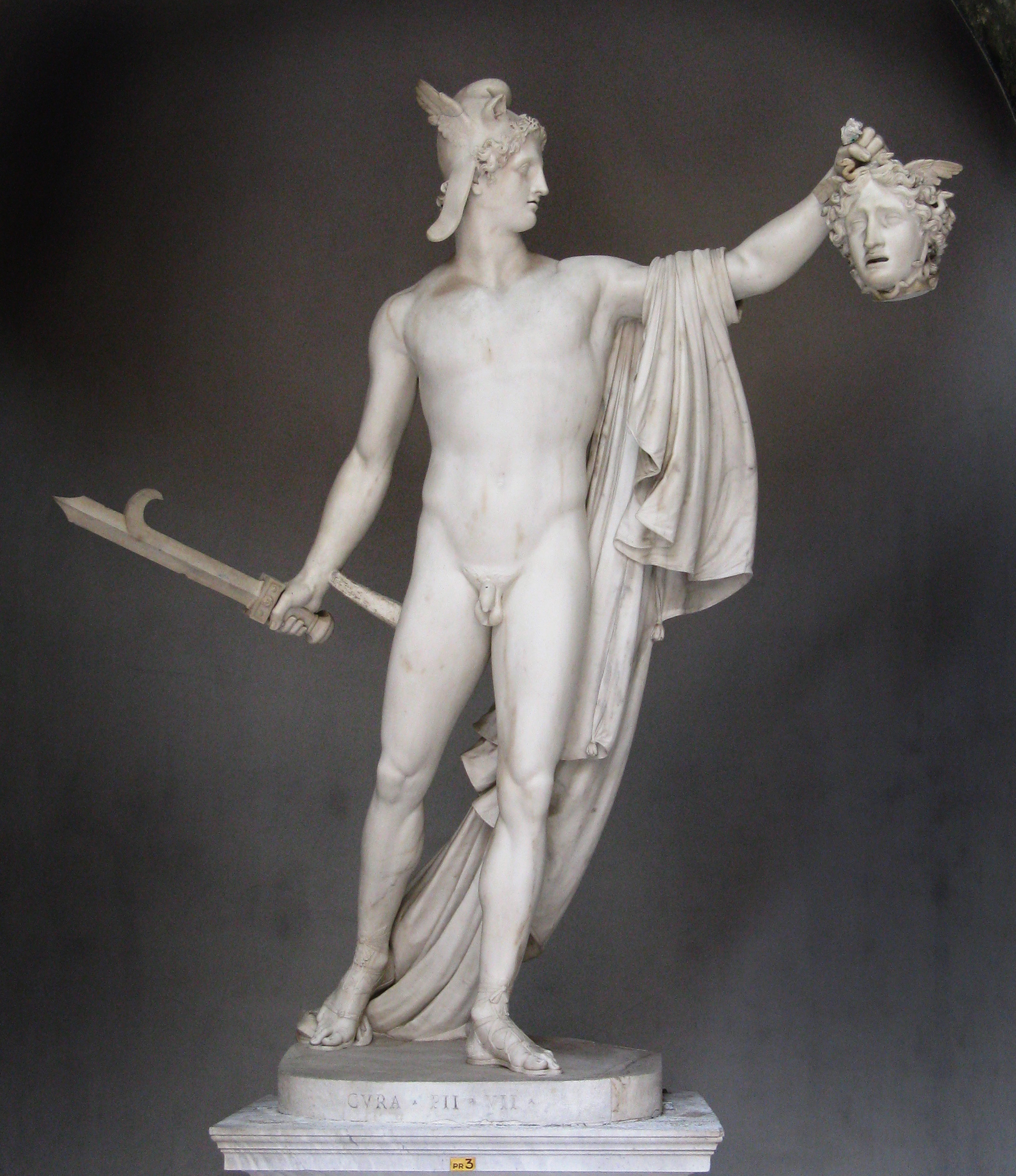 Perseus and the head of Medusa by Antonio Canova in Vatican Museums.